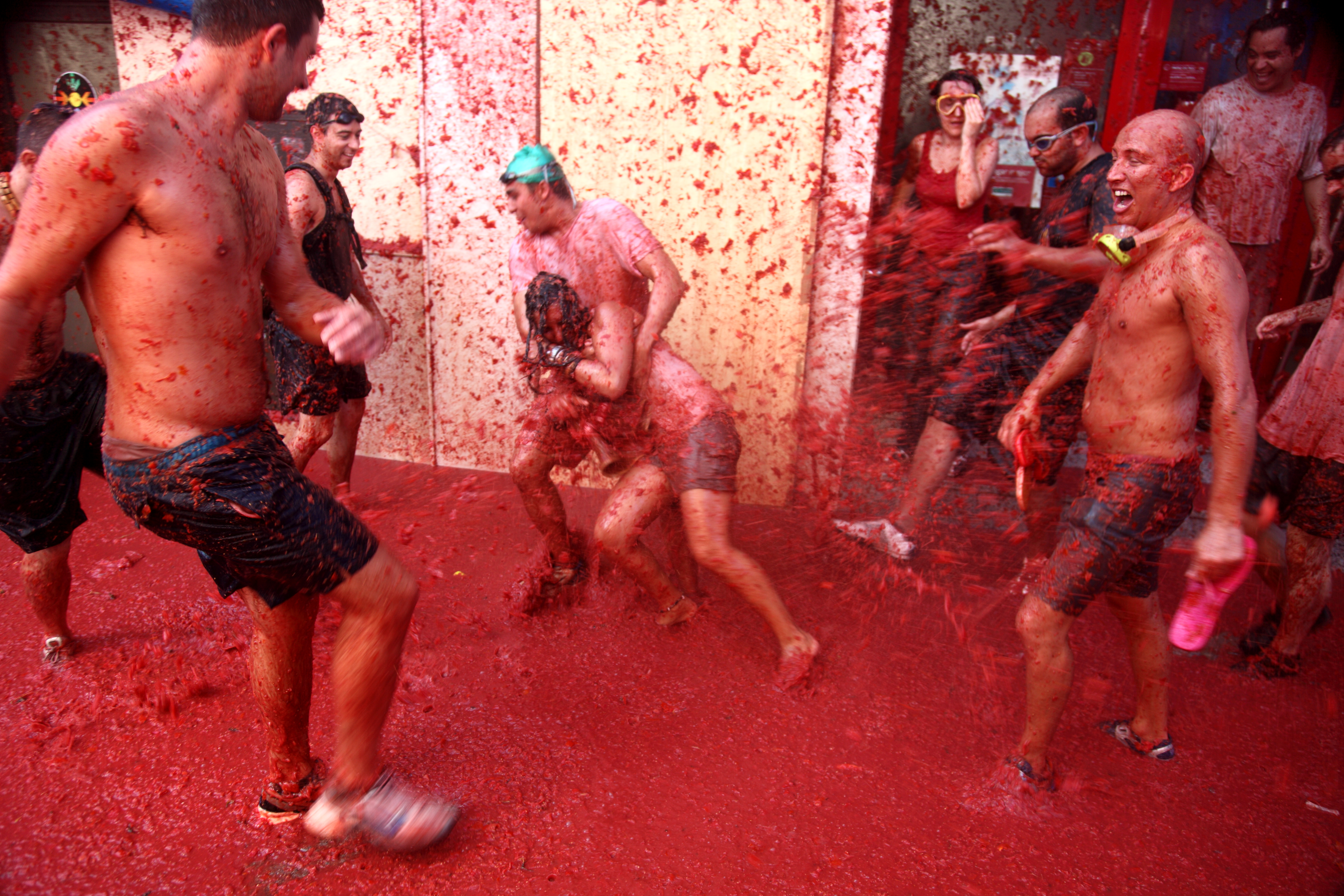 La Tomatina is a food fight festival held on the last Wednesday of August each year in the town of Buñol in the Valencia region of Spain. Tens of metric tons of over-ripe tomatoes are thrown in the streets in exactly one hour. Approximately 20,000–50,000 tourists come to find out more about the tomato fight, multiply by several times Buñol's normal population of slightly over 9,000. There is limited accommodation for people who come to La Tomatina, and thus many participants stay in Valencia and travel by bus or train to Buñol, about 38 km outside the city. In preparation for the dirty mess that will ensue, shopkeepers use huge plastic covers on their storefronts in order to protect them. They also use about 150,000 (kg) tomatoes, just about 90,000 pounds (